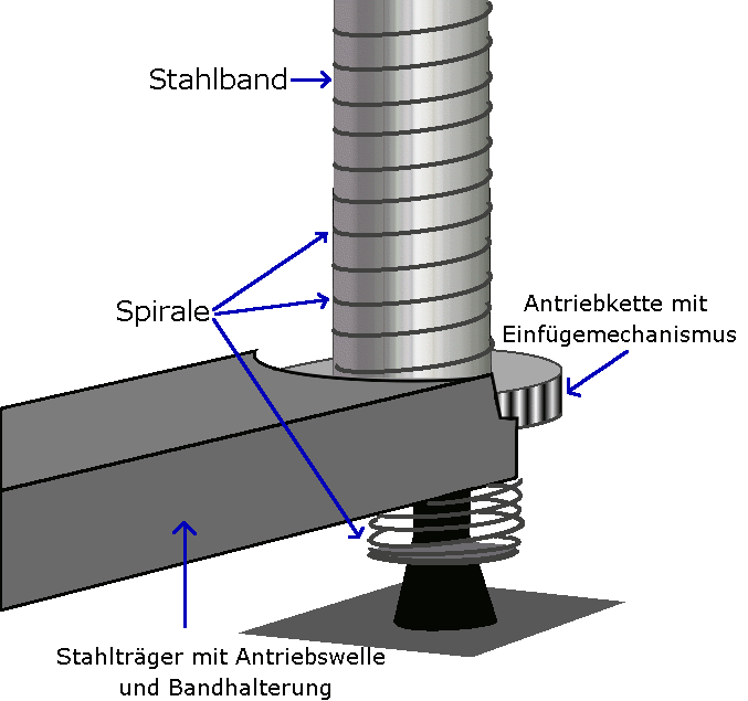 sketch of lift mechanics within Konzerthaus Freiburg